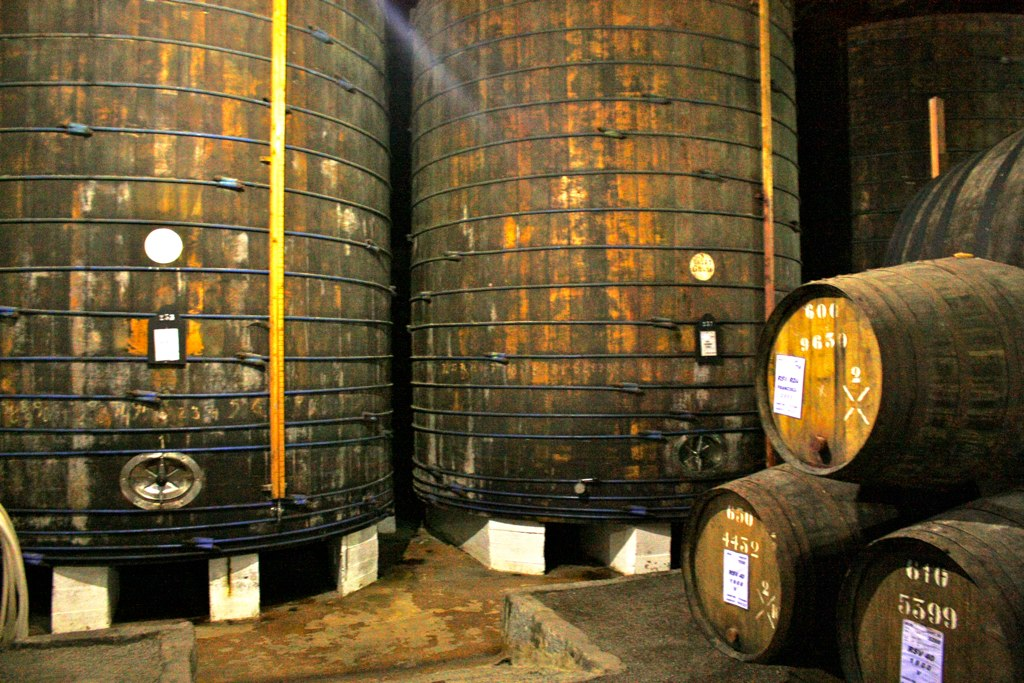 Woodden fermentation tanks and barrels in the Portuguese cellars of Douro Port Shipper Croft.